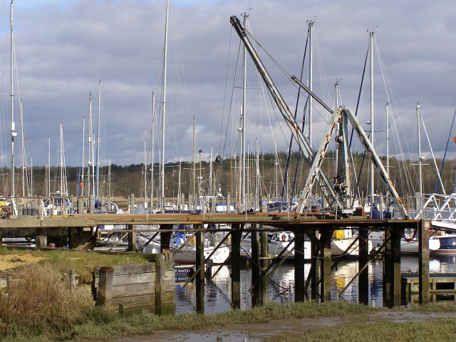 Jetty at the Buckler's Hard Yacht Harbour This jetty protrudes into the river from the Agamemnon Boat Yard, with Buckler's Hard Yacht Harbour beyond. This is a very sheltered marina, only a short distance upriver from the Solent.